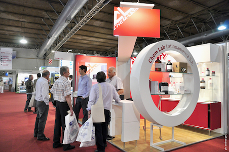 حضور در نمایشگاه های بین المللی مواد شیمیایی